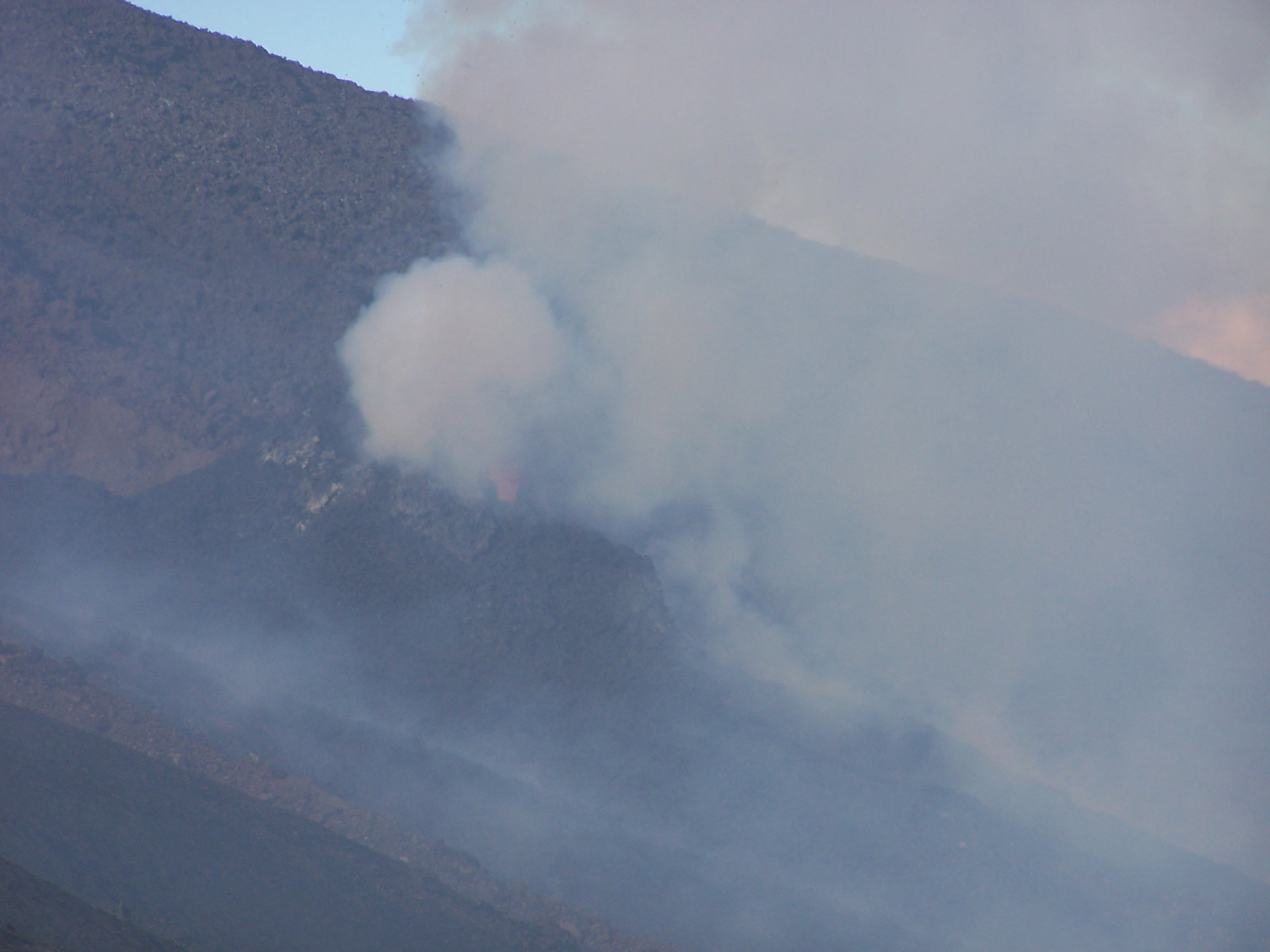 Etna's 2006 eruption photographed from Torre del Filosofo